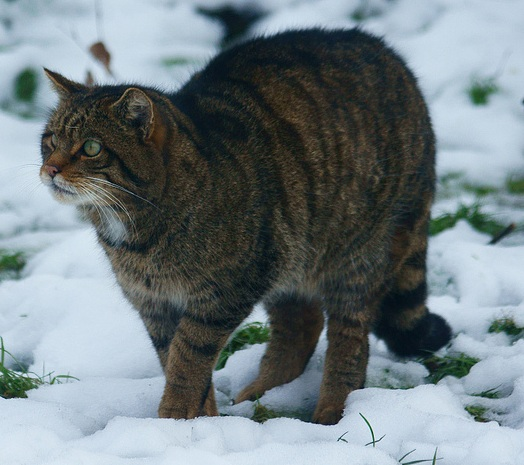 'Kendra' waits for food, during the Keeper talk.